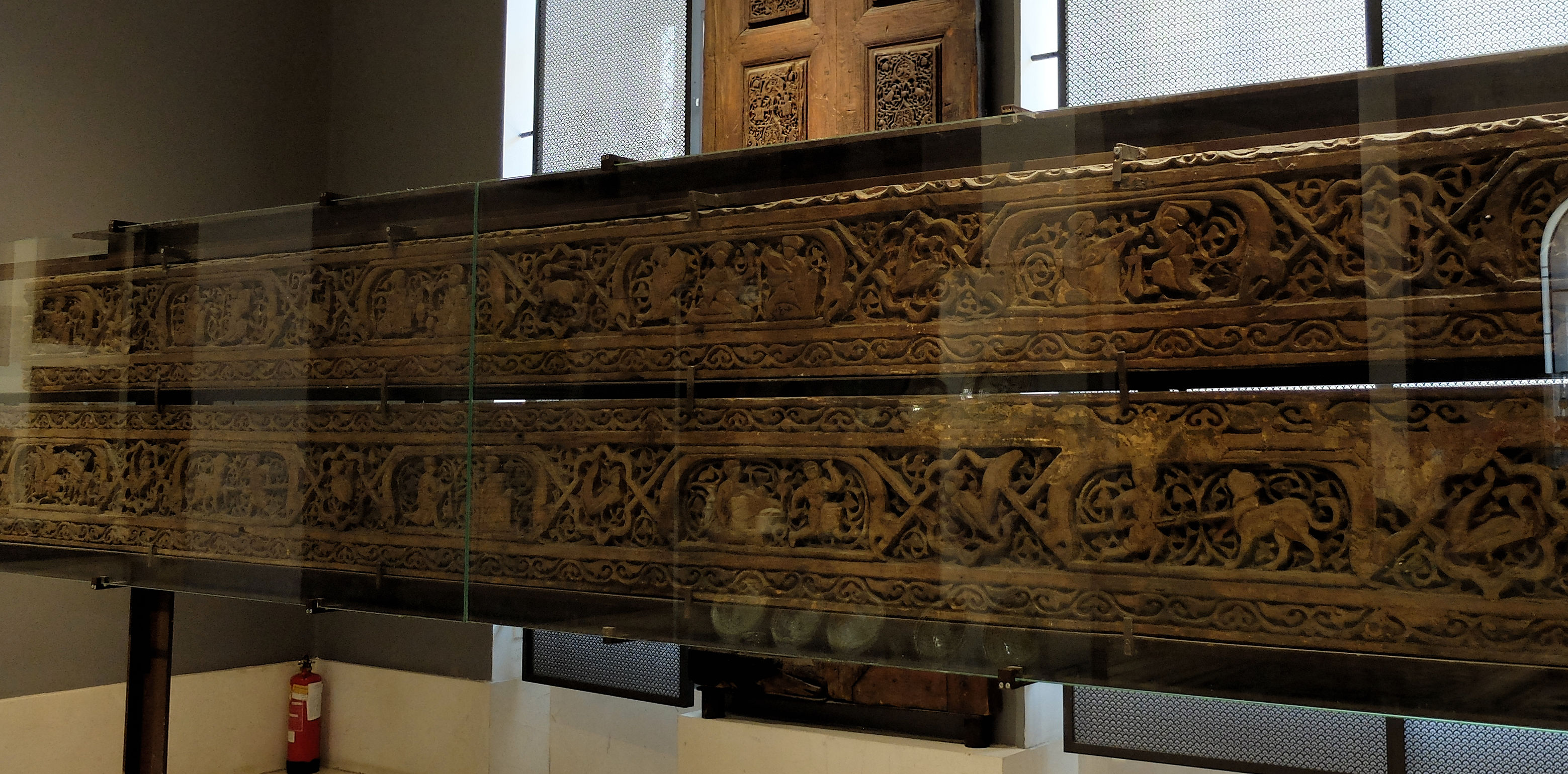 Fatimid carved wooden beams (11th century) found in the maristan of Sultan Qalawun, now on display in the Museum of Islamic Art, Cairo.